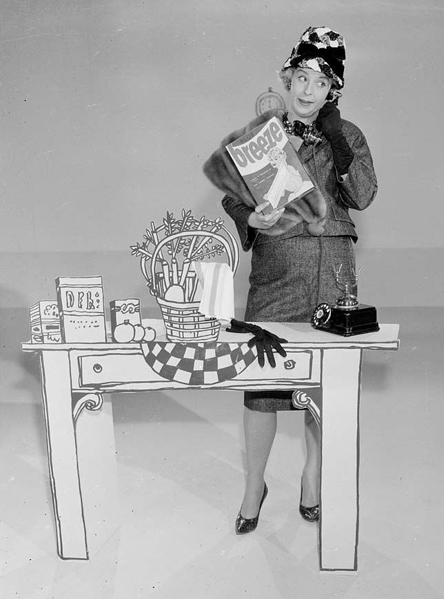 Peterson Productions filming advertisement for Breeze laundry detergent. Toronto, Ontario, Canada.